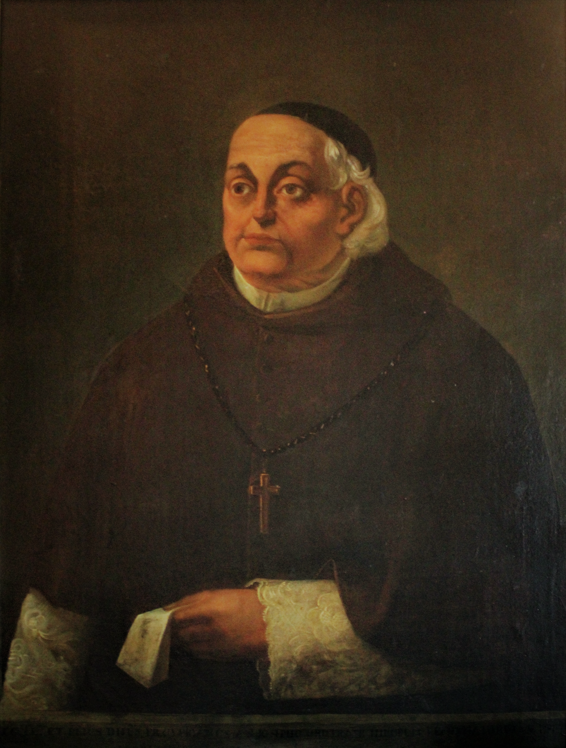 Cipriano de São José, OFM, Bishop of Mariana from 1797 to 1817.